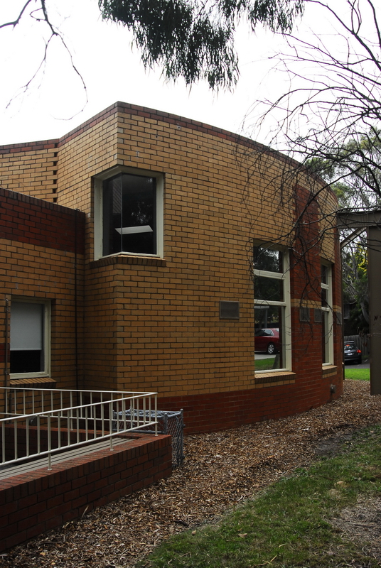 The chapel of St Joseph is located in 27-29 St rabane Avenues